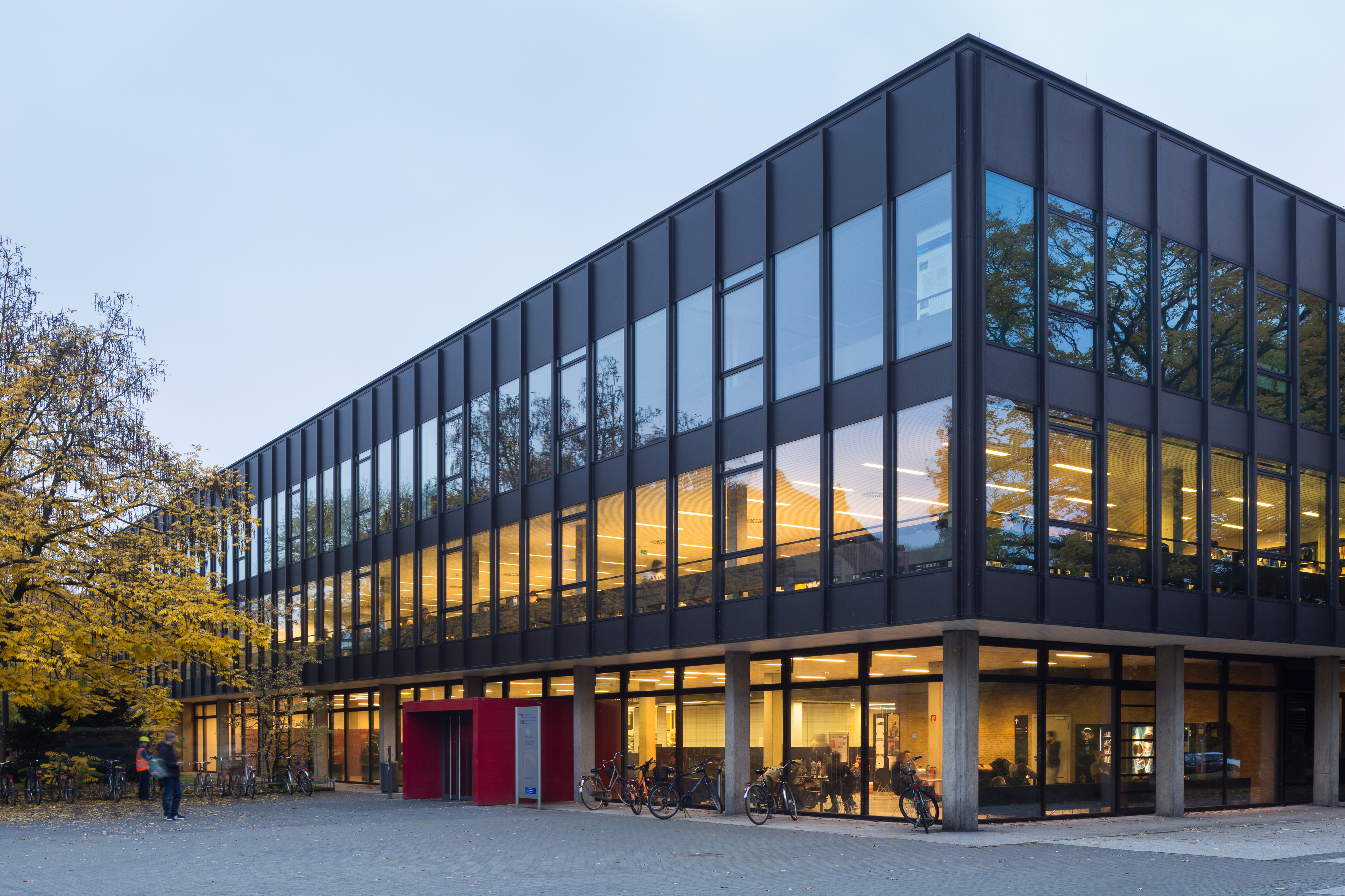 Library building of German National Library of Science and Technology / University Library Hannover (TIB / UB) located at Am Welfengarten no. 1b in Nordstadt district of Hanover, Germany. View of the facade where the main entrance is located (in red).